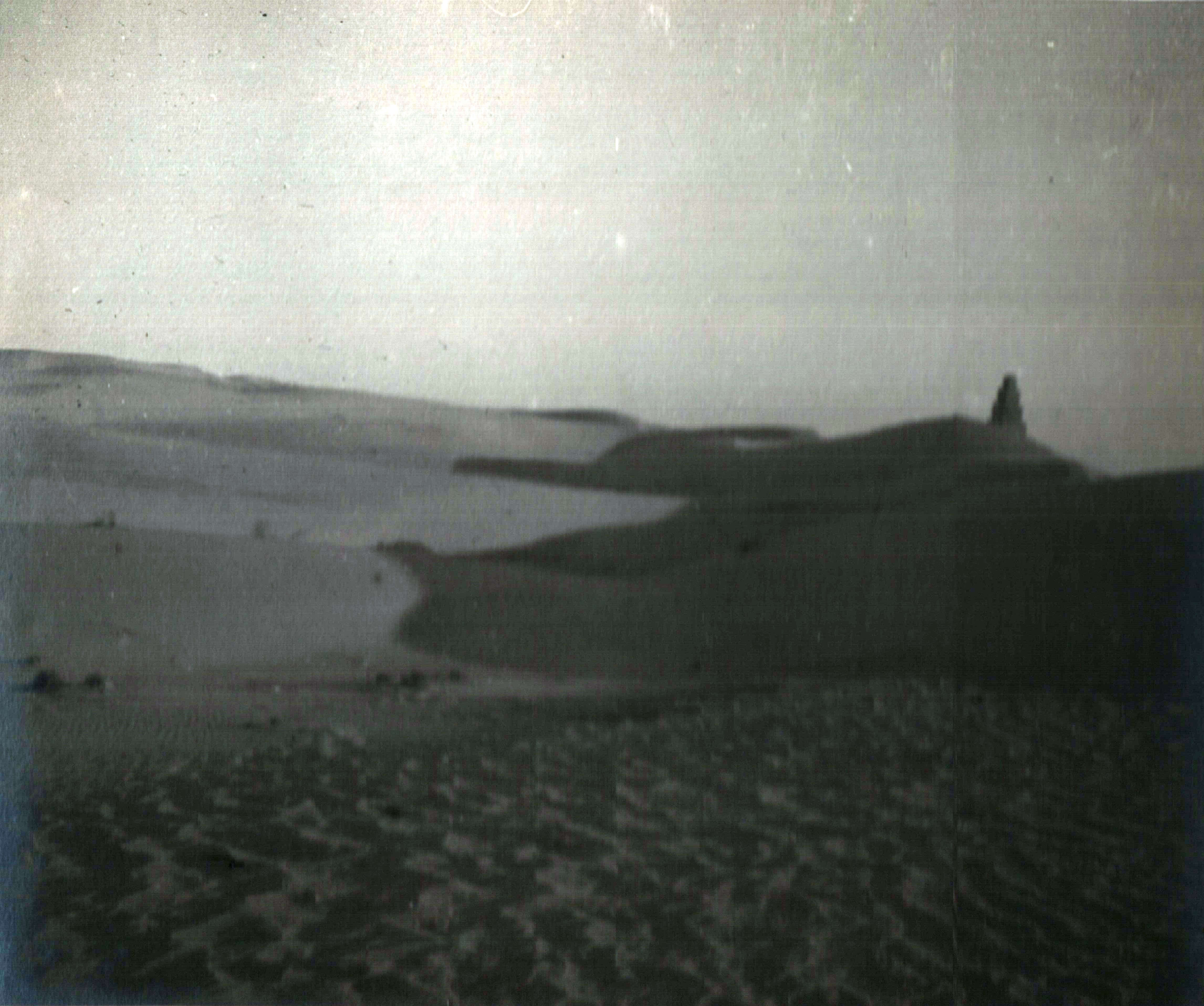 Views and photos of the Sahara desert and other regions in Africa.